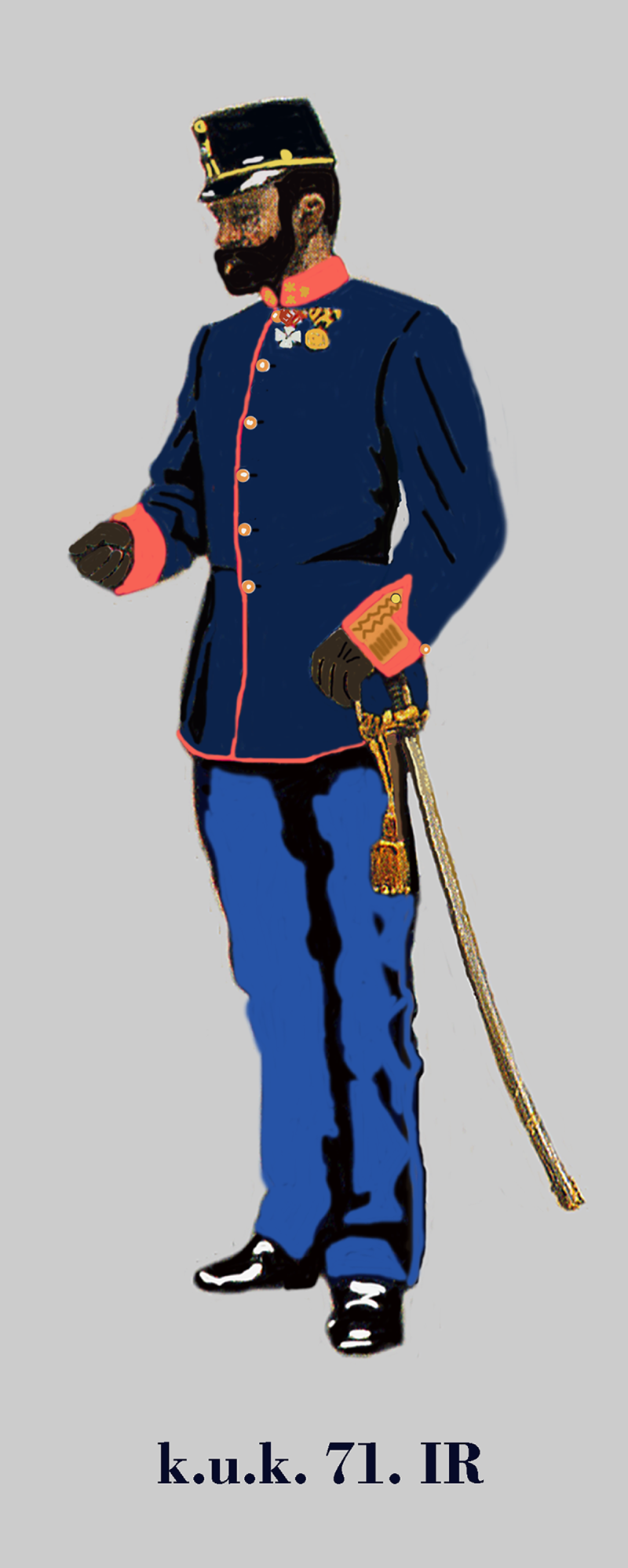 Captain of the Austria-Hungarian (k.u.k.). 71st hungarian Infantry Regiment in Service dress 1914